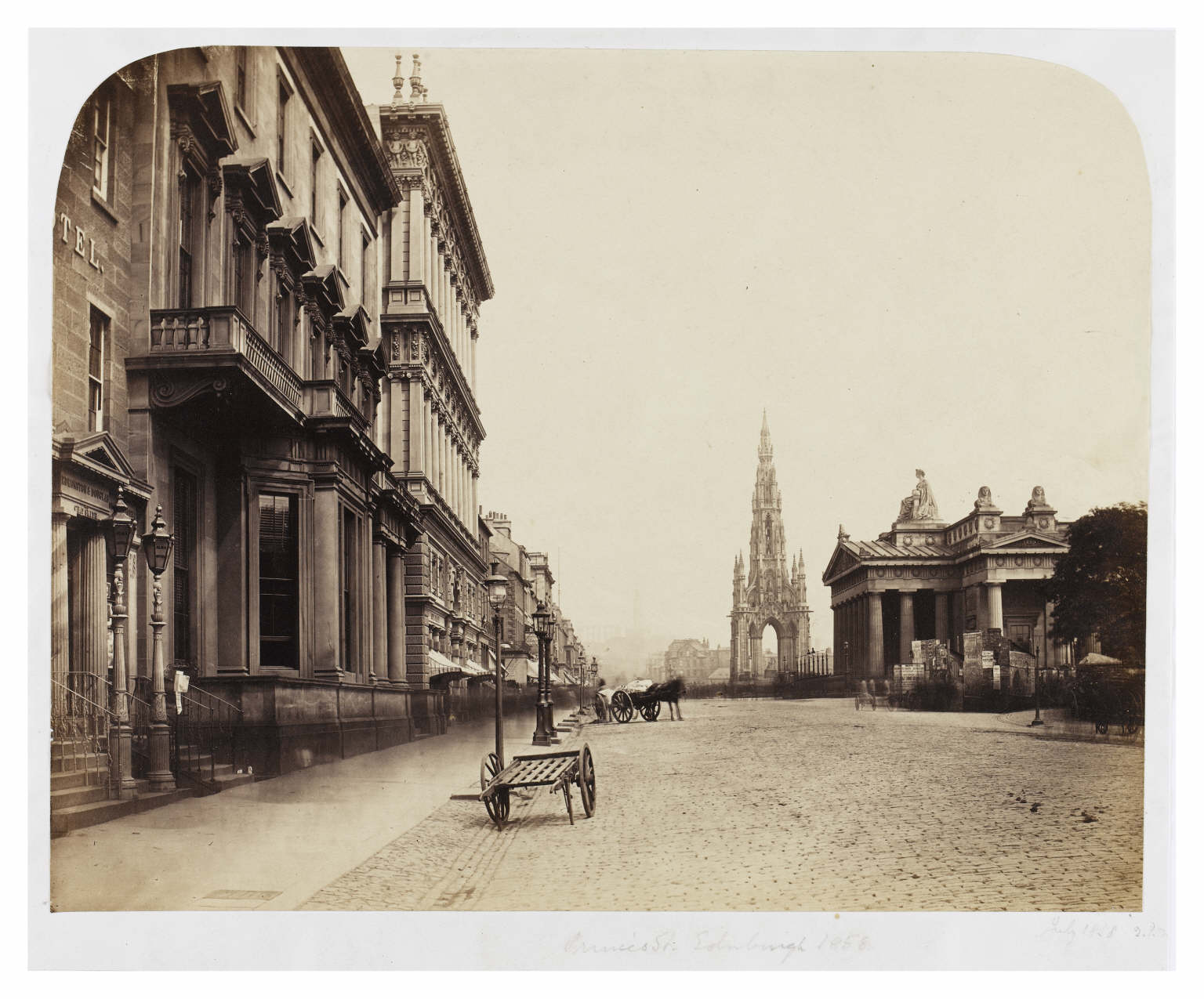 A view along Princes Street in Edinburgh in 1858, showing the Royal Scottish Academy on the right and in the distance, the Scott Monument.